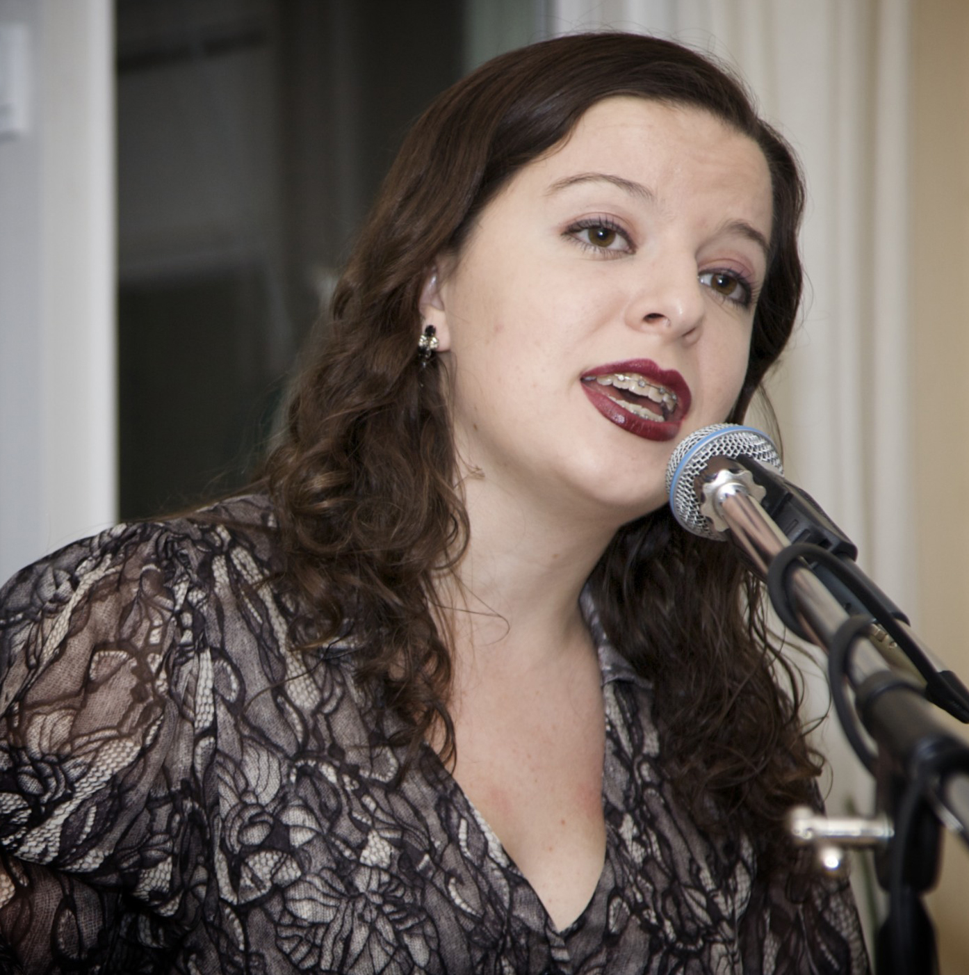 Jennifer Grassman performing at a house concert in Houston, Texas in July 2009.